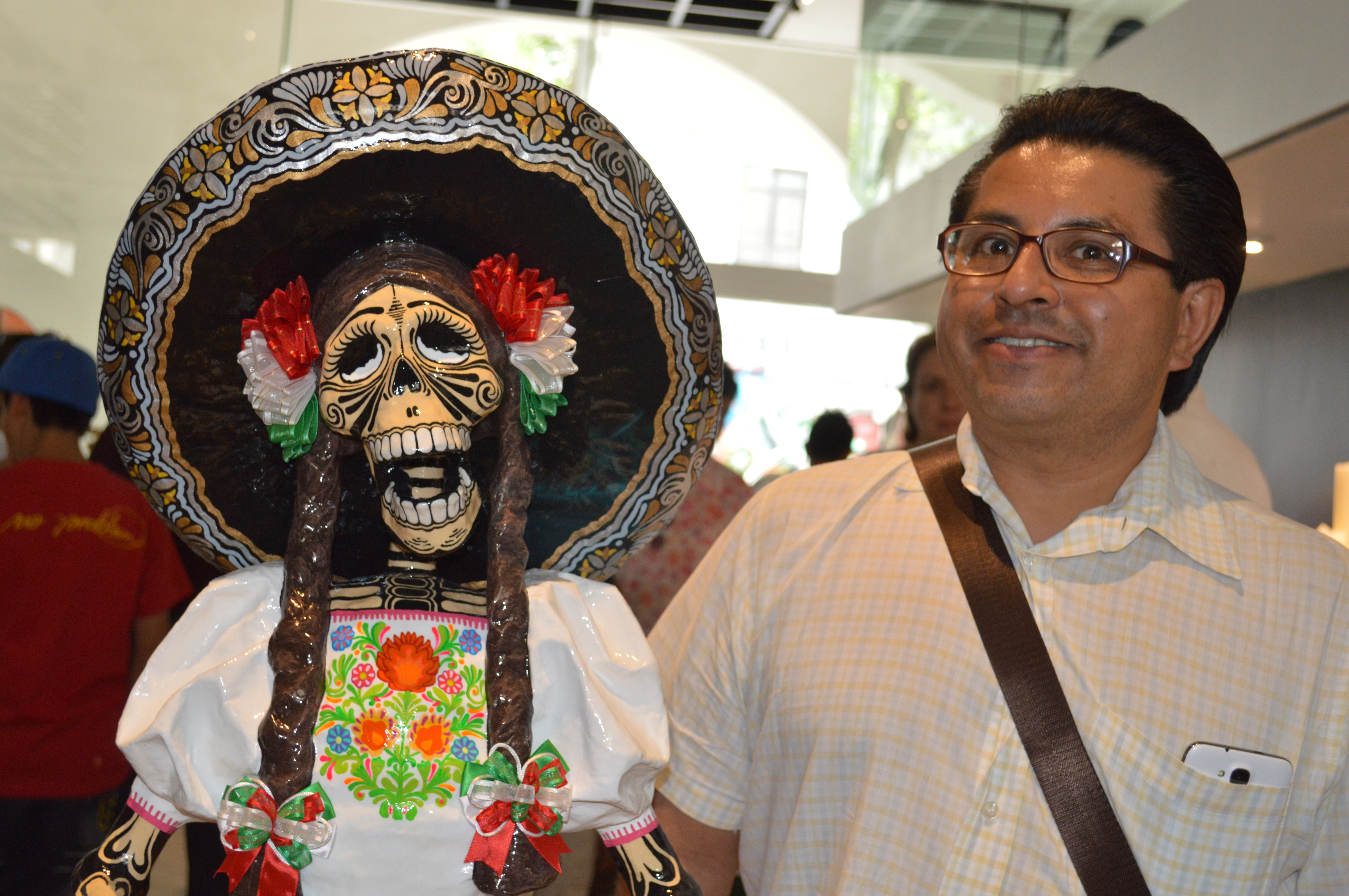 Skeletal figure of La China Poblana with its creator Rodolfo Villena Hernandez at the Museo de Arte Popular in Mexico City